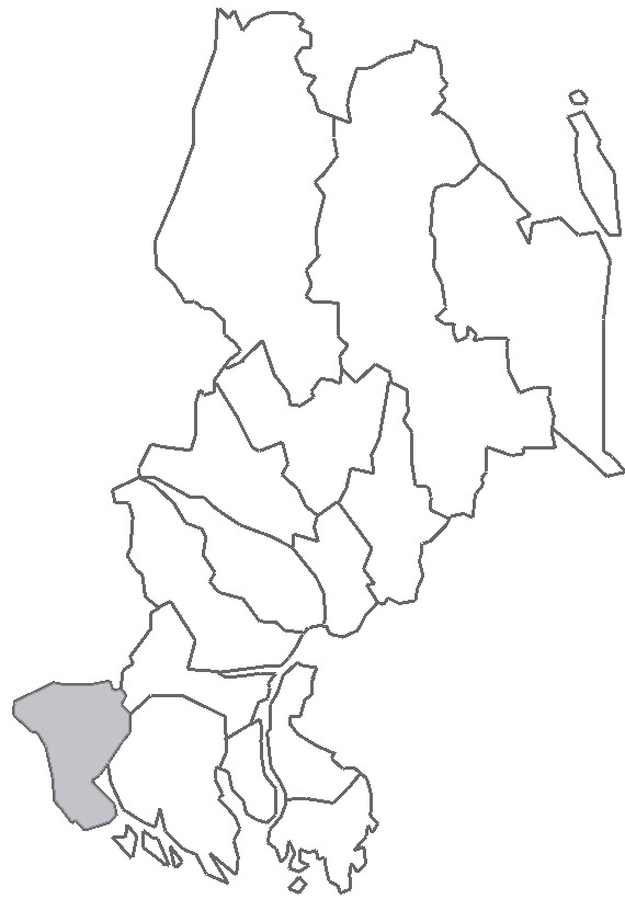 Map describing the location of Åsunda Hundred in Uppsala County, Sweden.